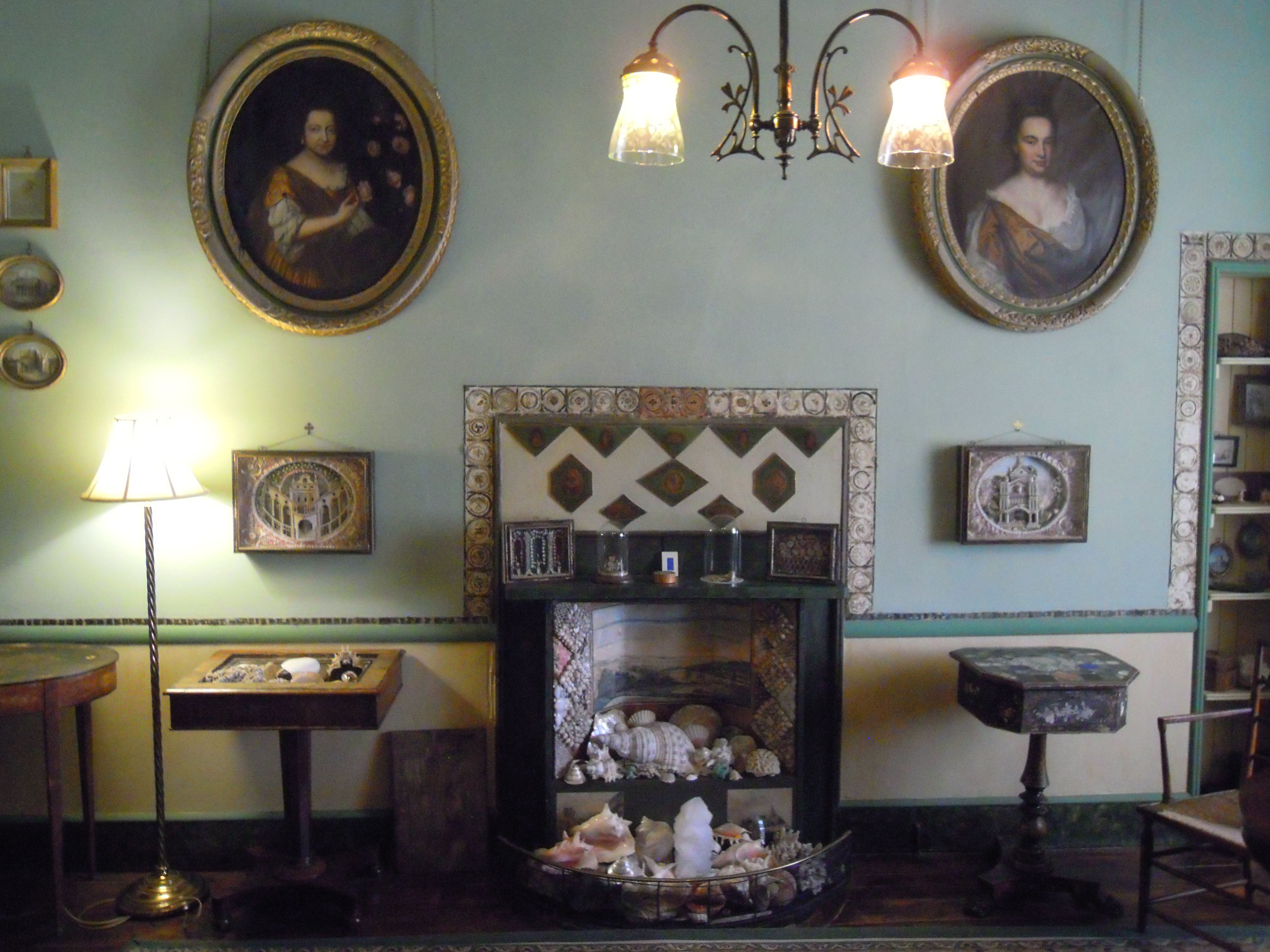 Display of shells in an ornate fireplace at A La Ronde in Devon